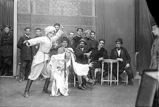 Scene from perfomance of "Meshadi Ibad" (or "If not that one, then this one") in Azerbaijan State Theatre of Opera and Ballet. Director Abbas Mirza Sharifzade.